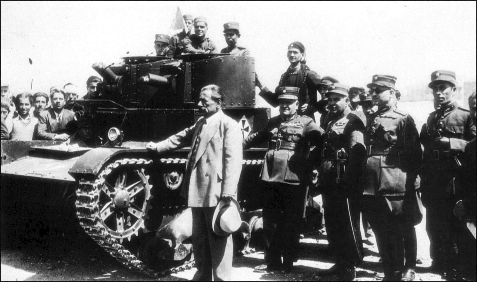 Minister of Military Affairs Georgios Kondylis (in civilian suit, centre) and general Achilleas Protosyngellos (to Kondylis' right) in front of a Vickers 6-Ton Type A tank in early 1935.